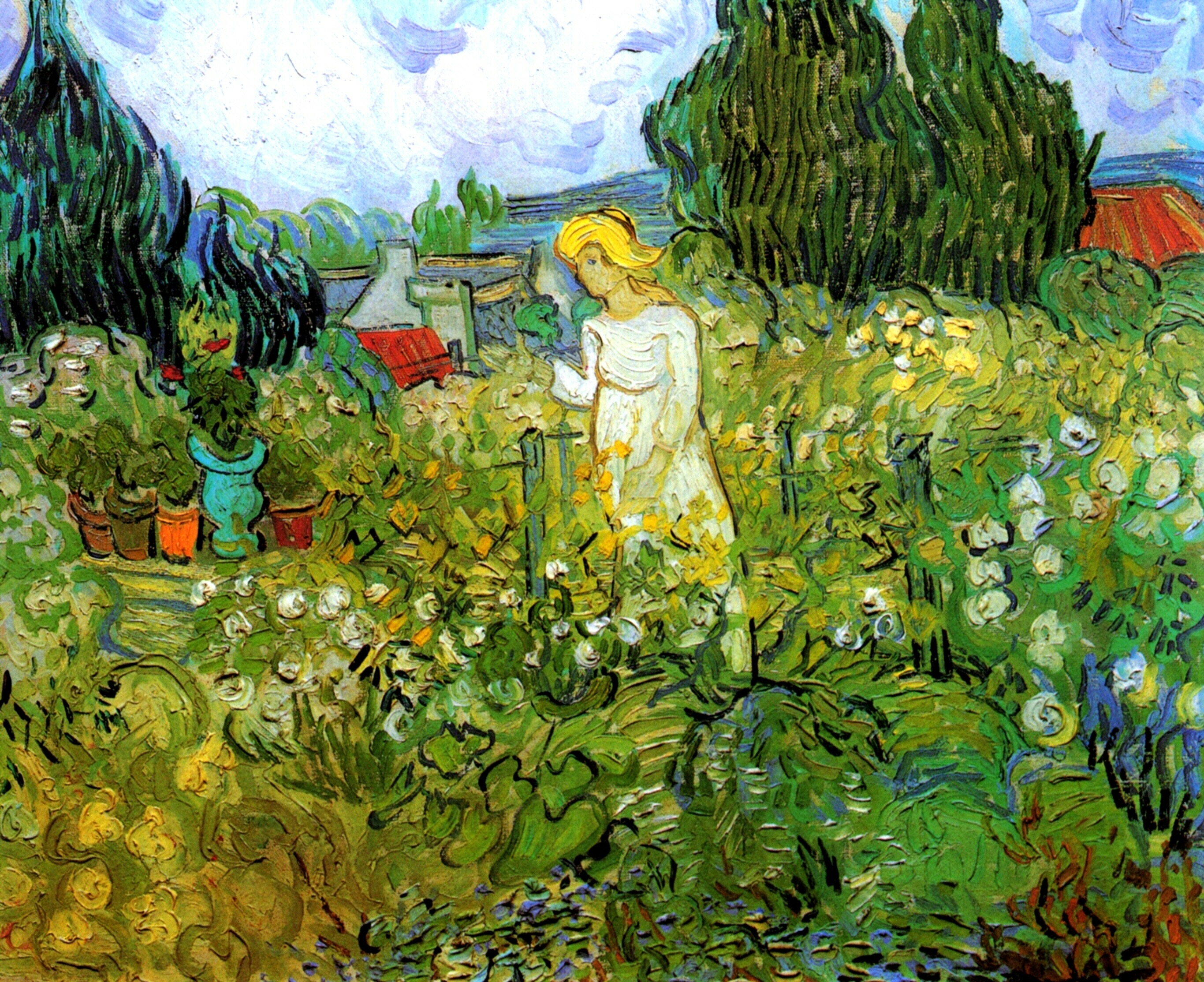 Marguerite Gachet in the Garden